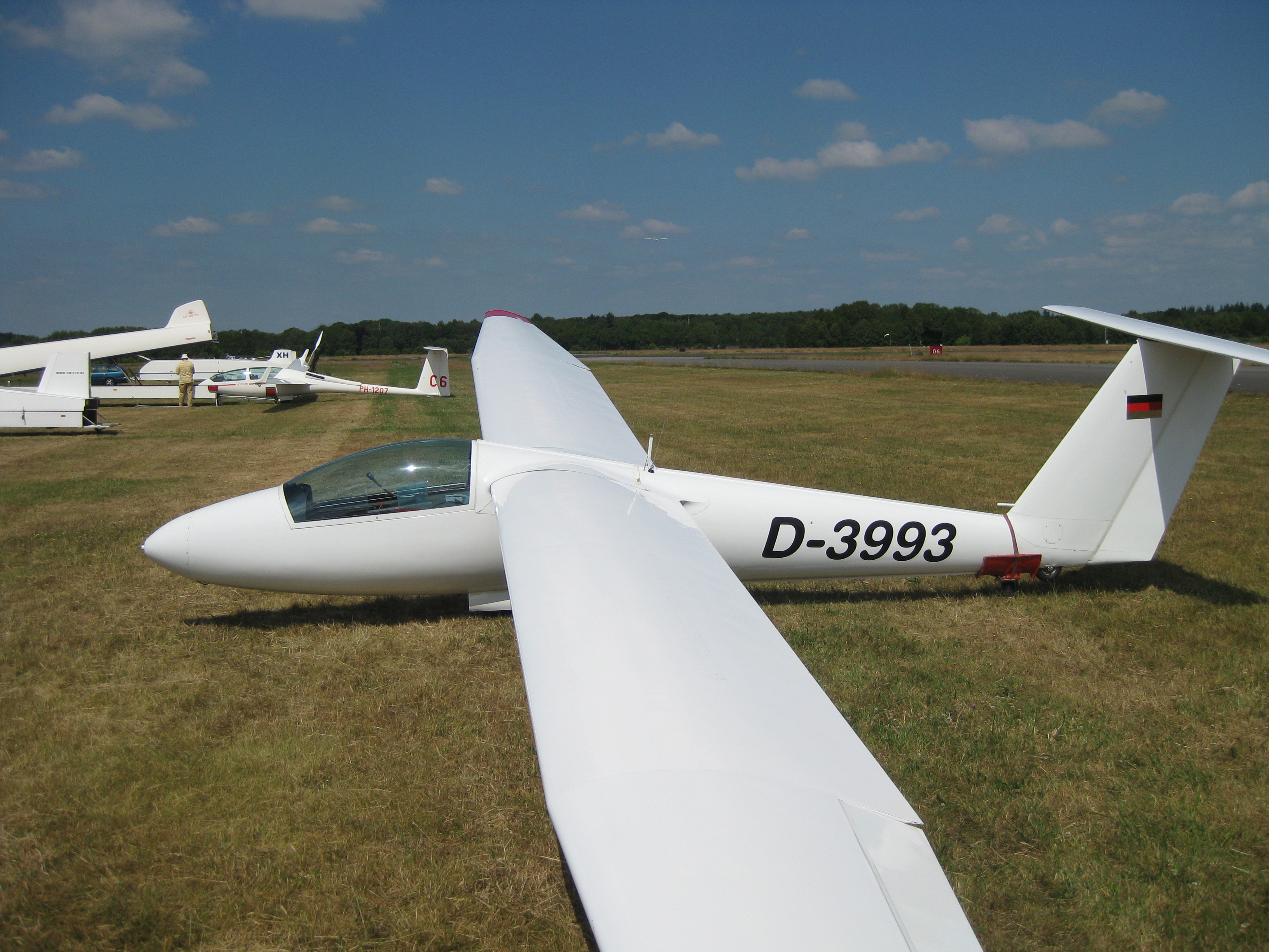 Pilatus B4 AF D-3993 on Twente Airforce base, The Netherlands.